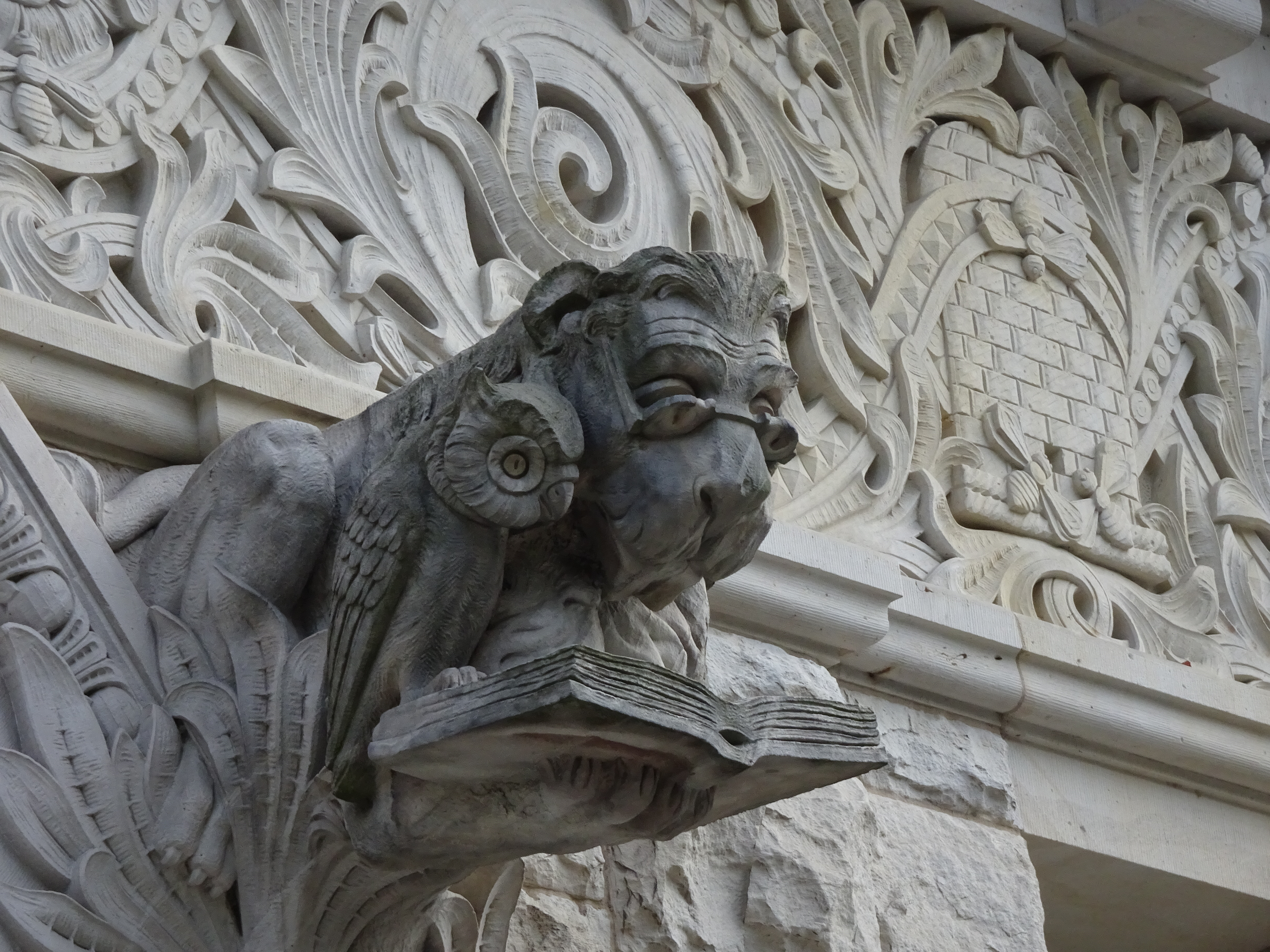 Goethe Gymnasium Berlin Wilmersdorf: Facade at front, detail: Lion and owl together reading a book.